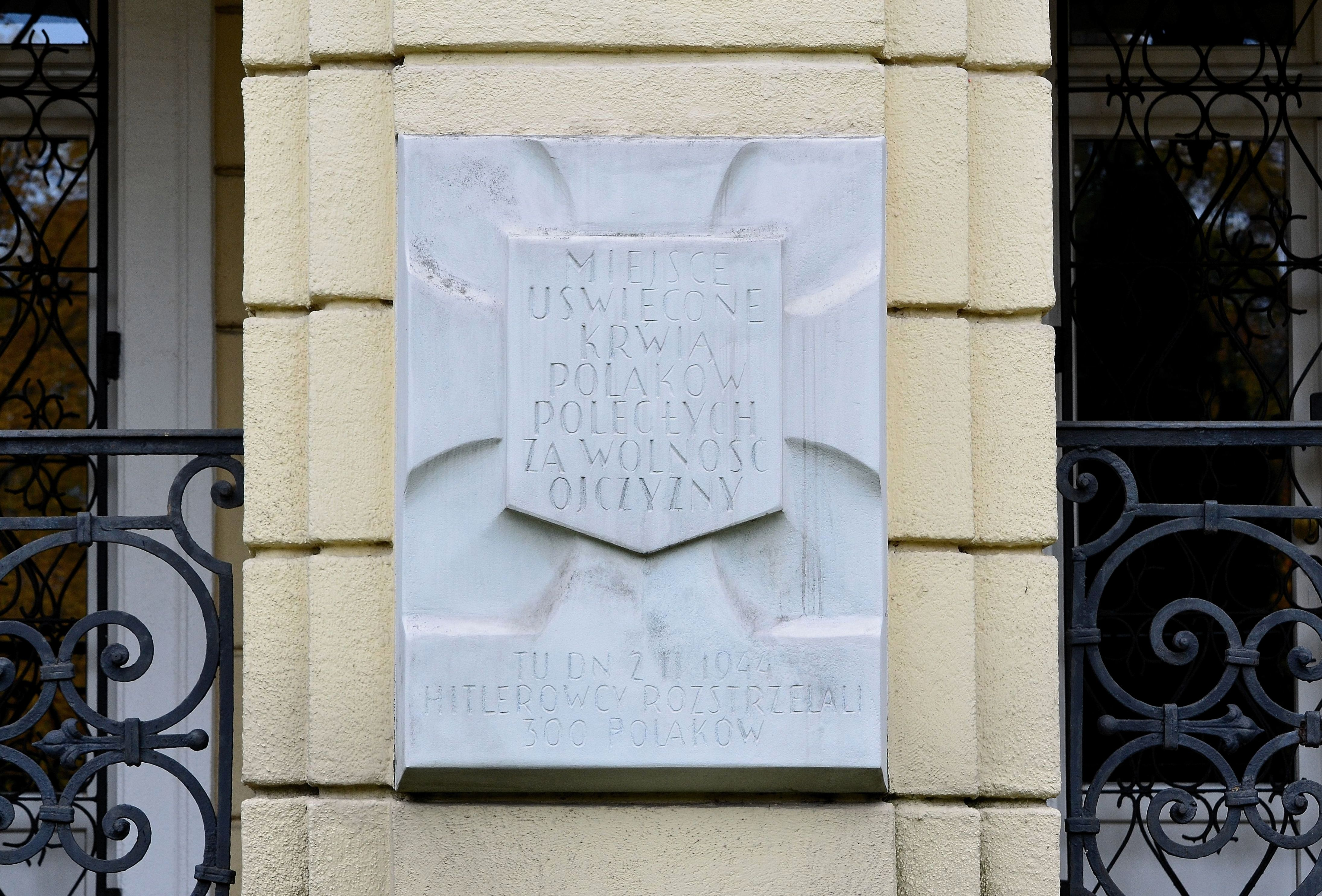 Tchorek commemorative plaque at 21 Ujazdowskie Avenue in Warsaw